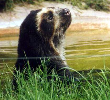 Spectacled bear (Tremarctos ornatus)